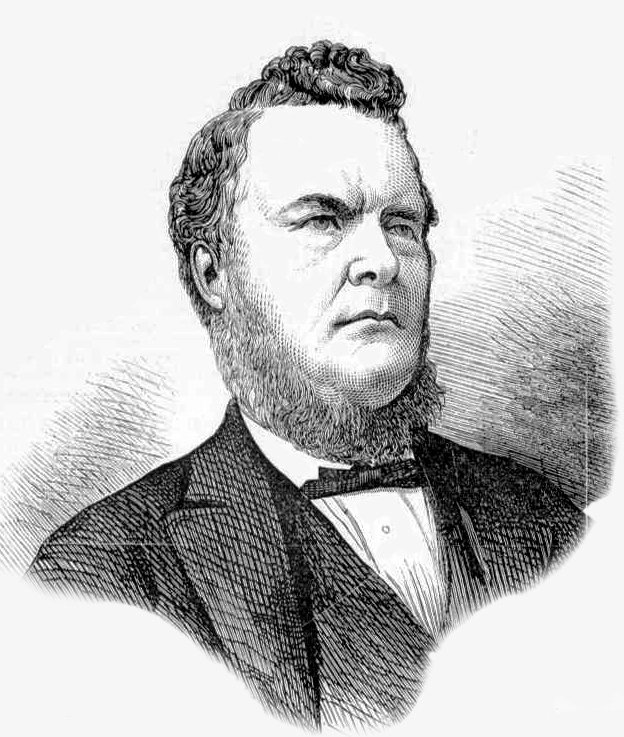 Portrait of George Alfred Lloyd (1815–1897)